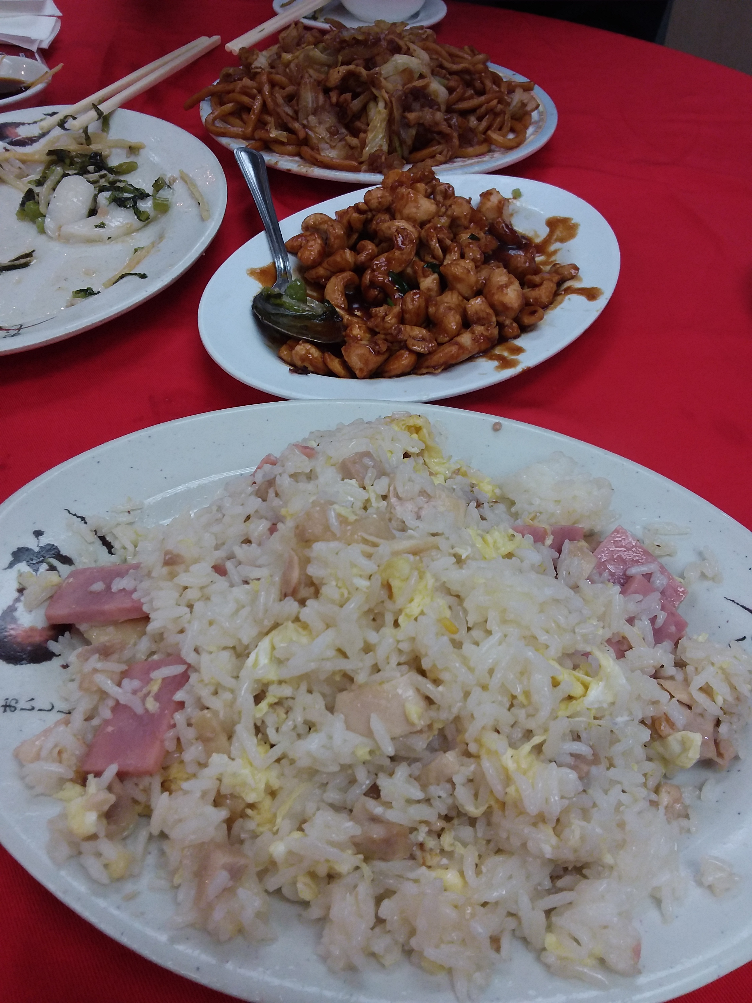 HK 灣仔 Wan Chai 柯布連道 30號 Obrien Road shop 三六九飯店 369 Restaurant Shanghai Food February 2019